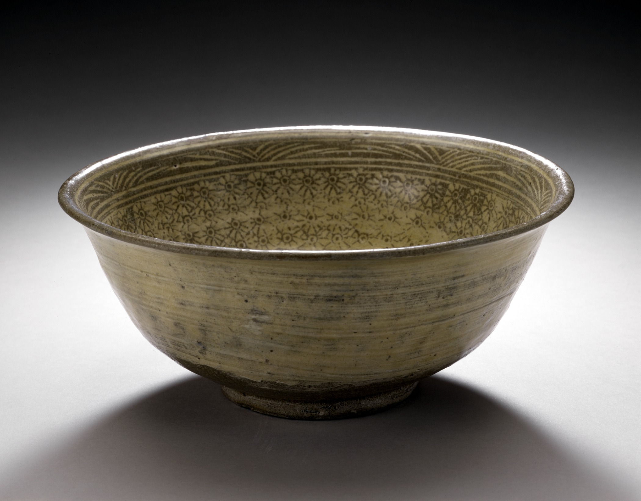 Korea, Korean, Joseon dynasty (1392-1910), 15th-early 16th century Furnishings; Serviceware Buncheong ware: Wheel-thrown stoneware with stamped, incised and slip-filled decoration and pale green glaze Height: 2 3/4 in. (6.98 cm); Diameter: 7 1/4 in. (18.41 cm) Purchased with Museum Funds (M.2000.15.91) Korean Art